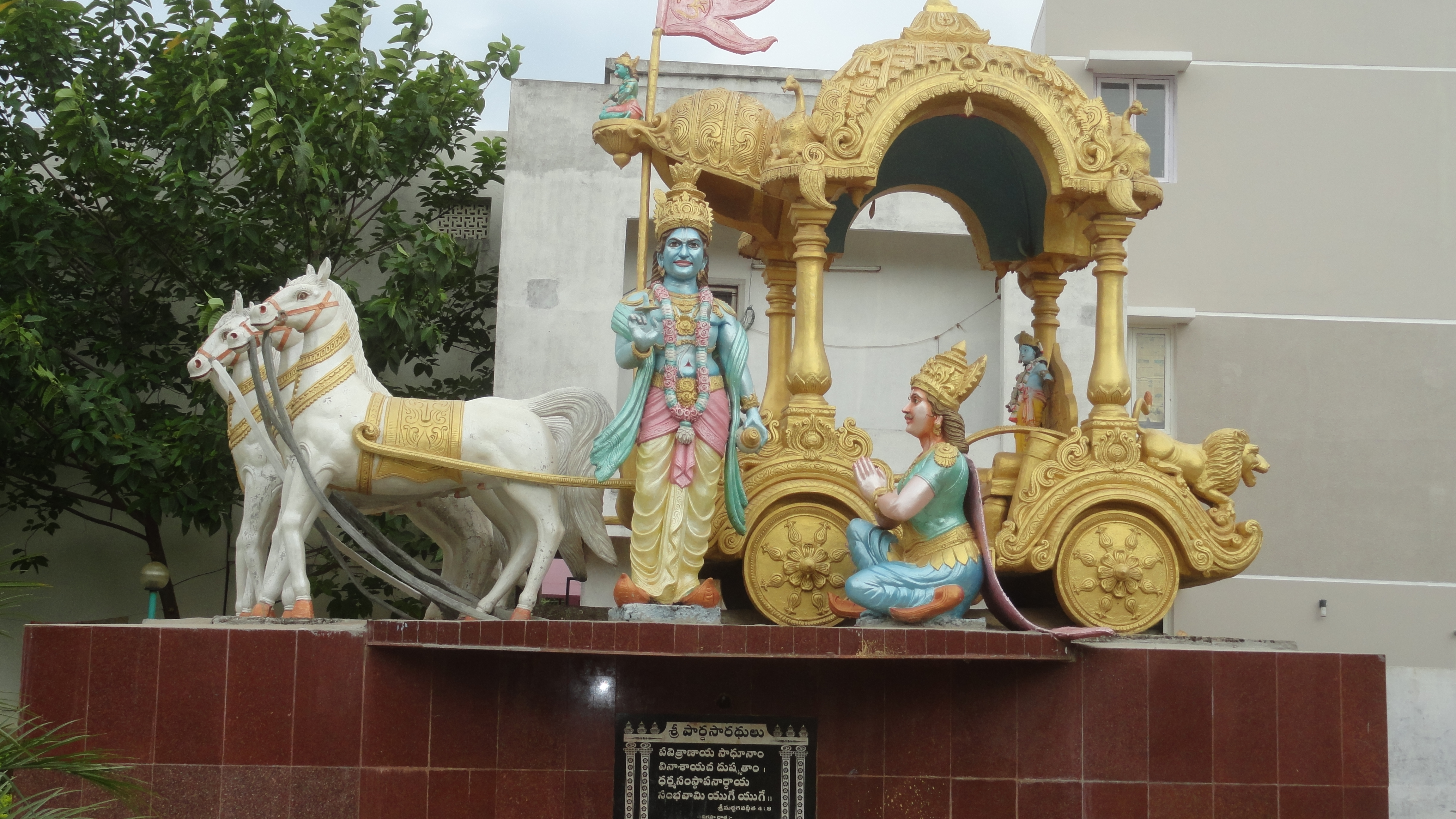 Bhagavadgita